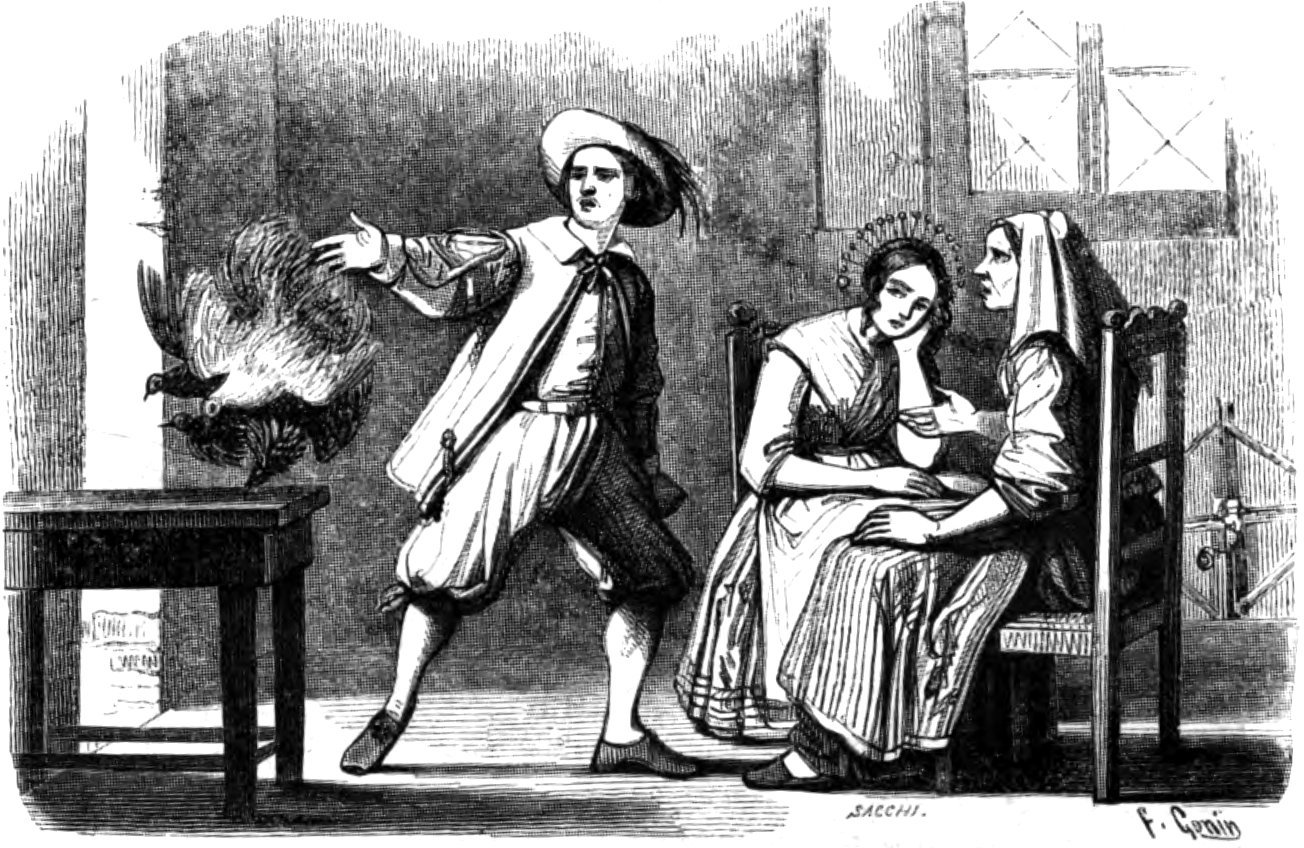 The most famous Italian historical romance,and the masterpiece of Alessandro Manzoni.